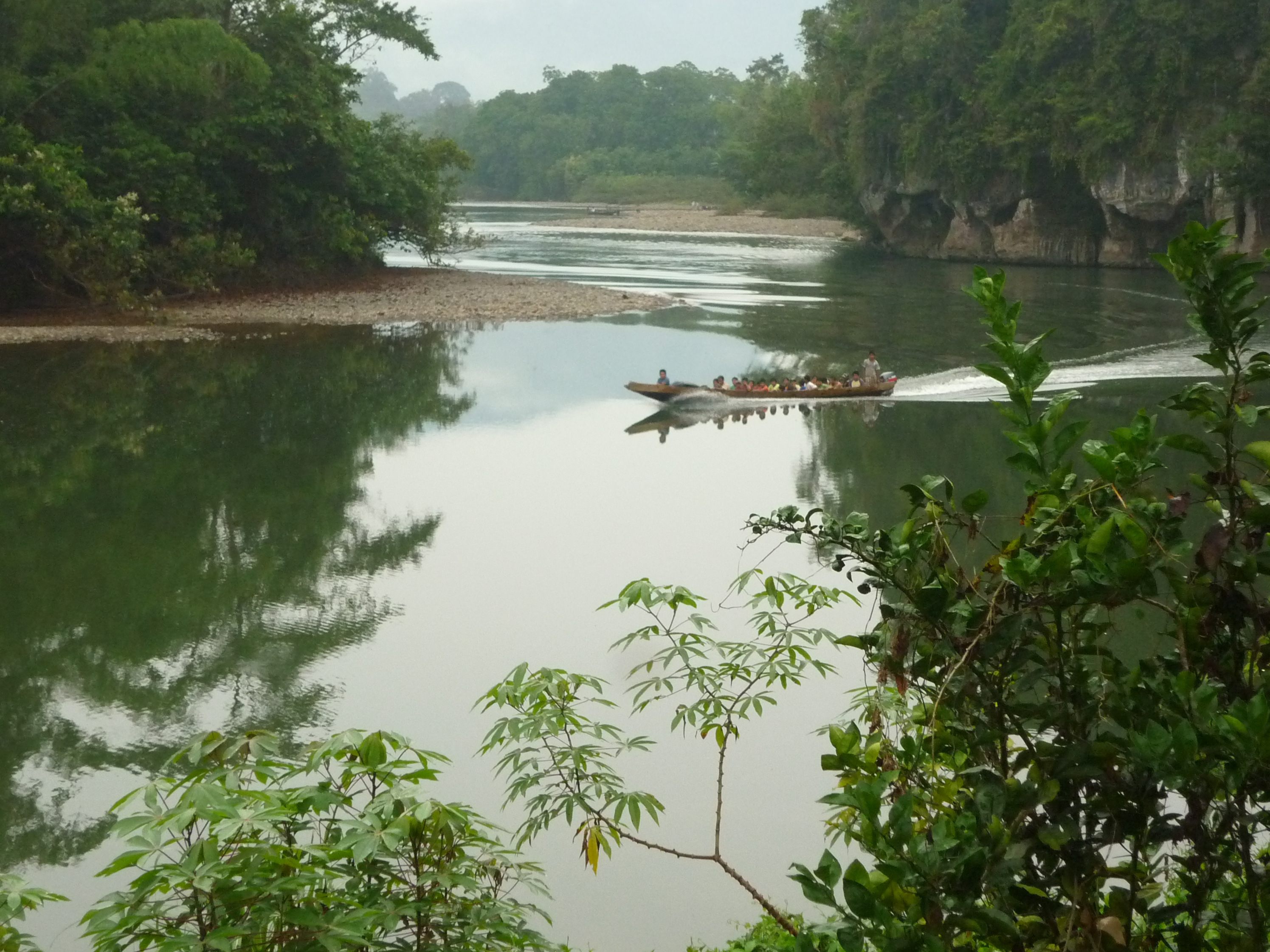 Canoe to Laguna de Kumpac via rio Yaupi, Logroño, Ecuador